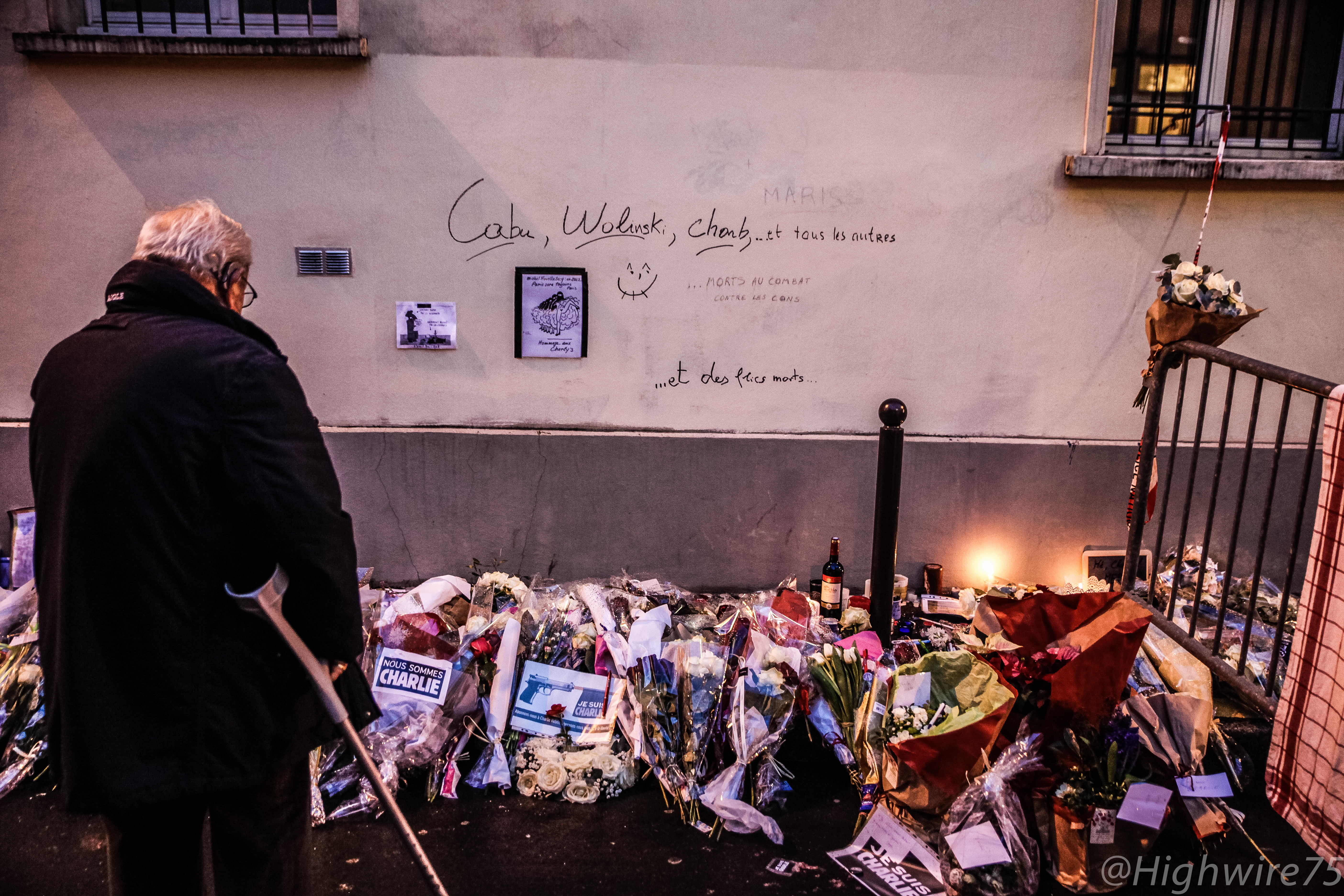 Rue Nicolas-Appert, Paris, one day after the Charlie Hebdo shooting.